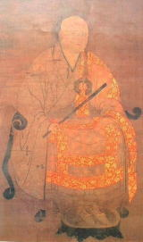 Portrait of Daitō Kokushi (Shūhō Myōchō) (絹本著色大燈国師像, kenpon chakushoku daitō kokushizō). Hanging scroll, 115.5 cm x 56.5 cm. Color on silk. Located at Daitoku-ji, Kyoto. The scroll has been designated as National Treasure of Japan in the category paintings.